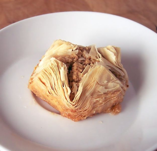 Baklava with Walnuts from Vrbjani